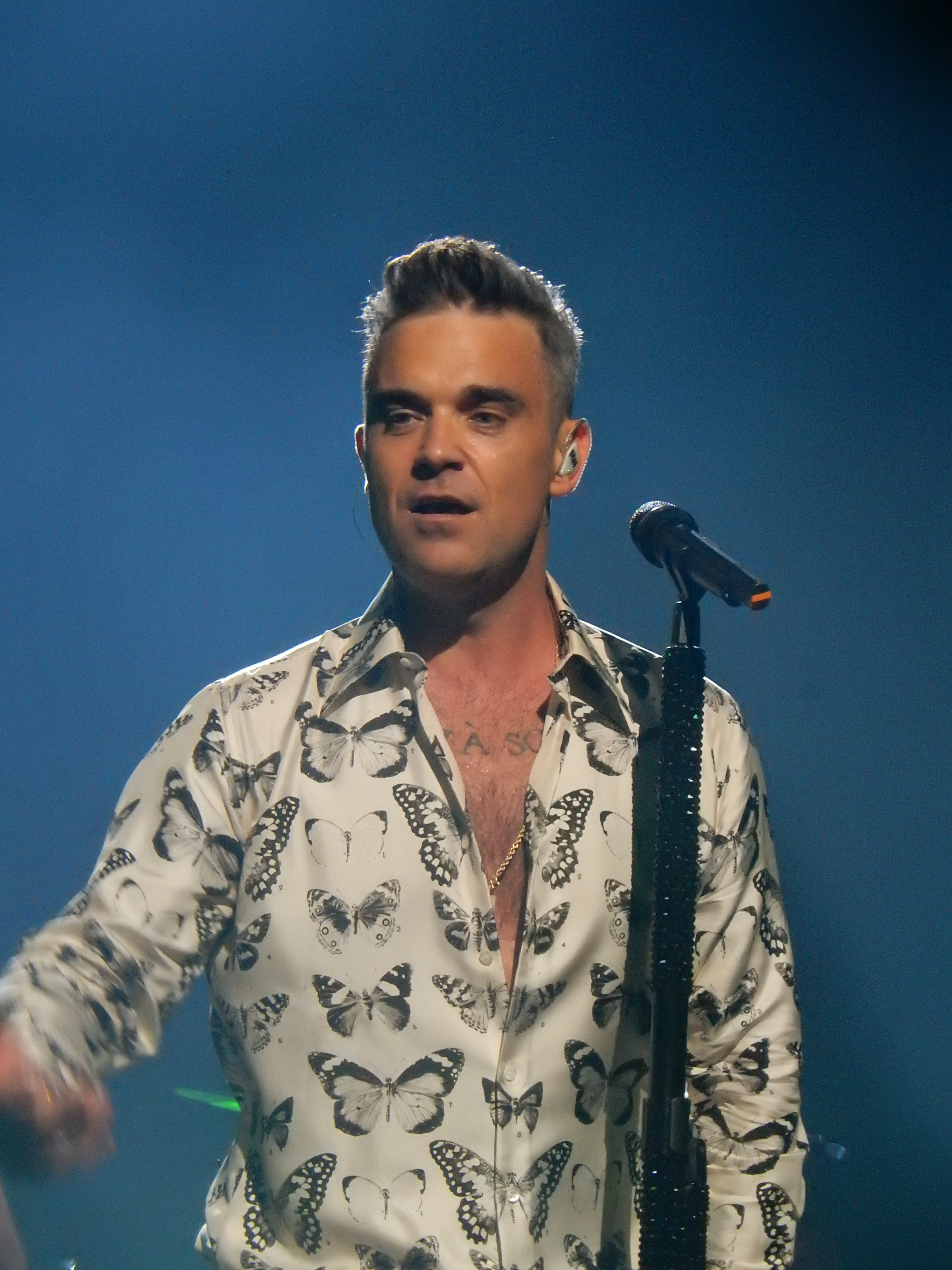 Robbie Williams, Roundhouse, London (Apple Music Festival)